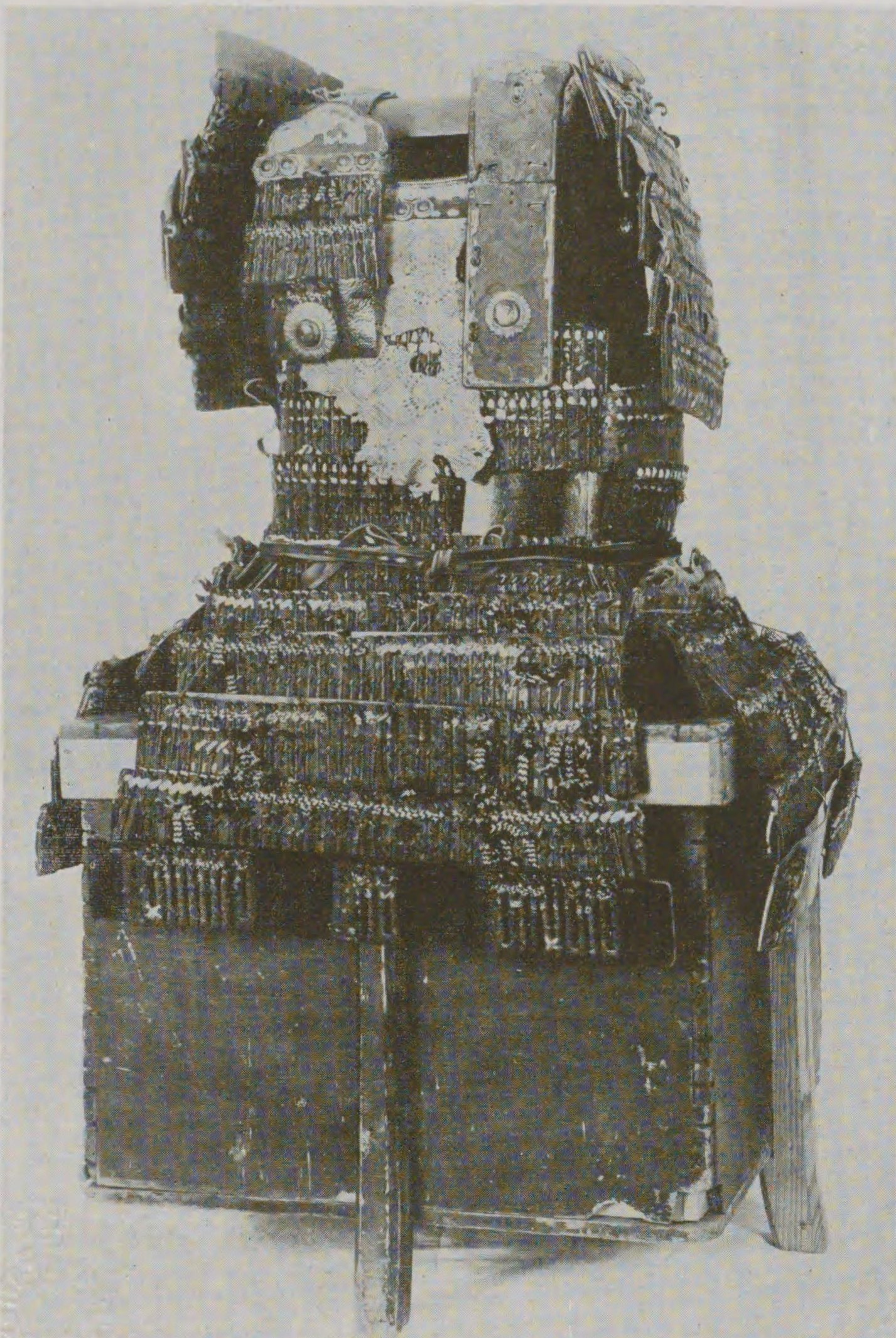 A o-yoroi made in Heian period at Sanage-jinja, Toyota, Aichi prefecture. An Important Cultural Property of Japan.